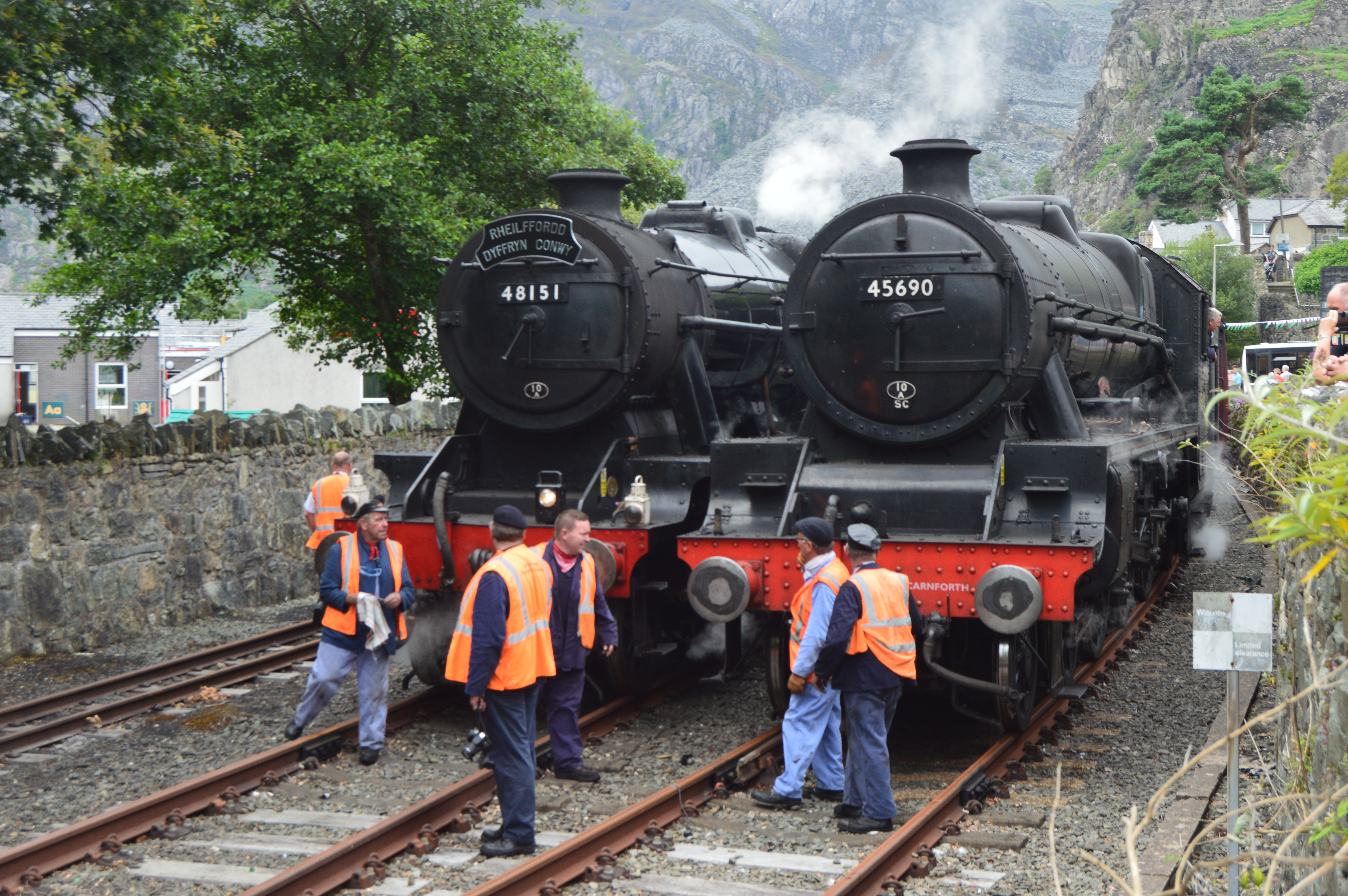 After arriving in Blaenau Ffestiniog the 8F was detached from the jubilee and the two were positioned side by side for photos to be taken for the unique occasion